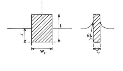 Depiction of Wilhelmy plate